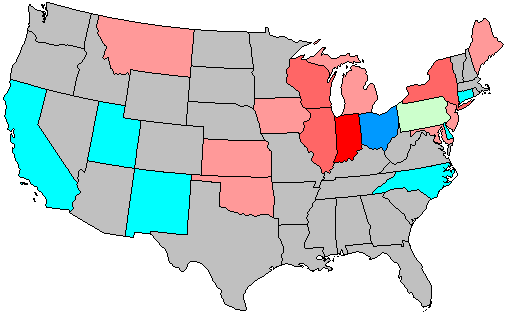 Summary of party change of U.S. house seats in the 1916 House election. Stripes indicate a tie between the gains of two or more parties. Legend: 6+ Democratic seat pickup 3-5 Democratic seat pickup 1-2 Democratic seat pickup 1-2 Republican seat pickup 3-5 Republican seat pickup 6+ Republican seat pickup 1-2 Progressive seat pickup 1-2 Farmer-Labor seat pickup 1-2 Socialist seat pickup Note: years ending in 2 may have inconsistent results due to redistricting.